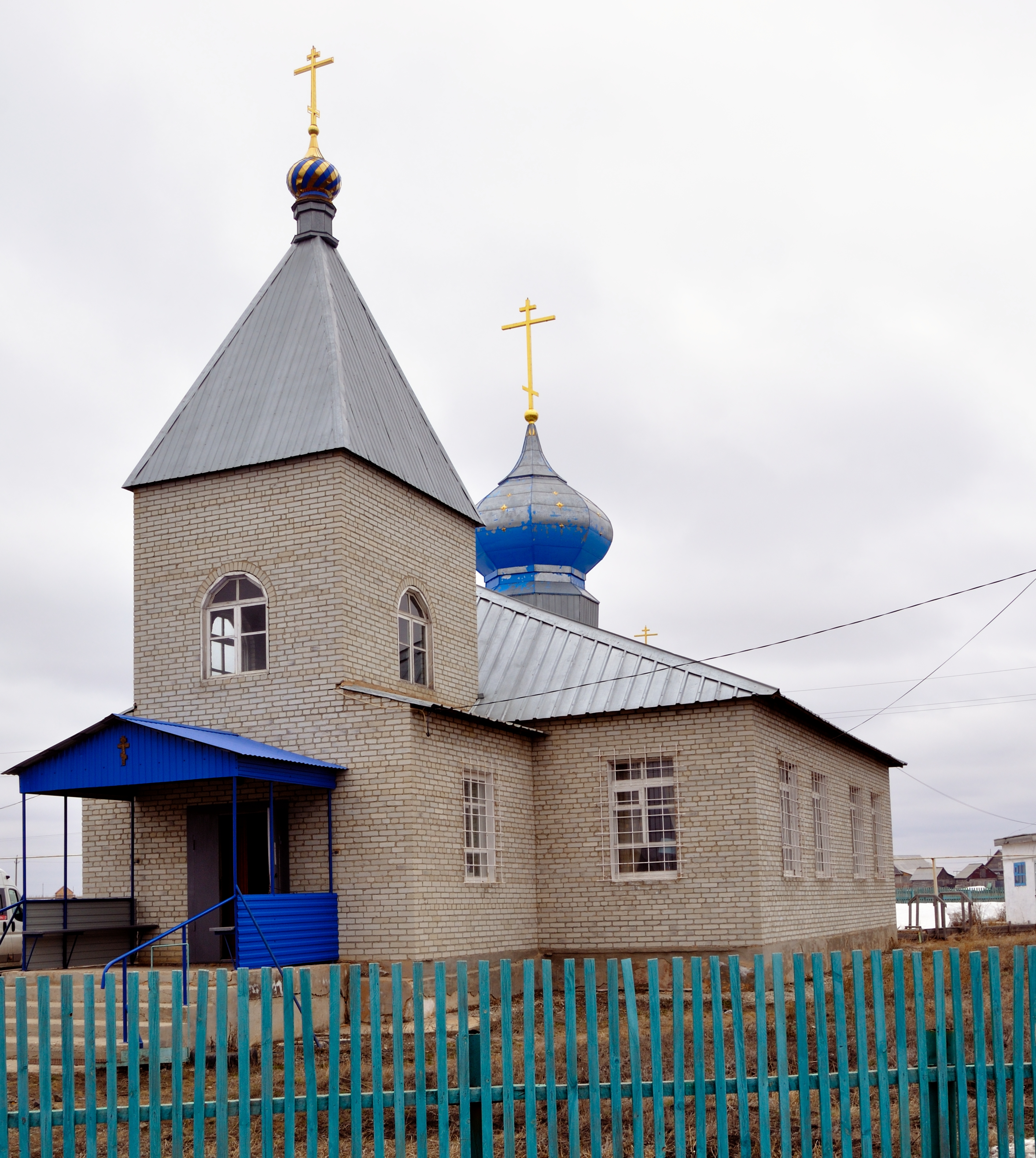 Church in Buribai 2013